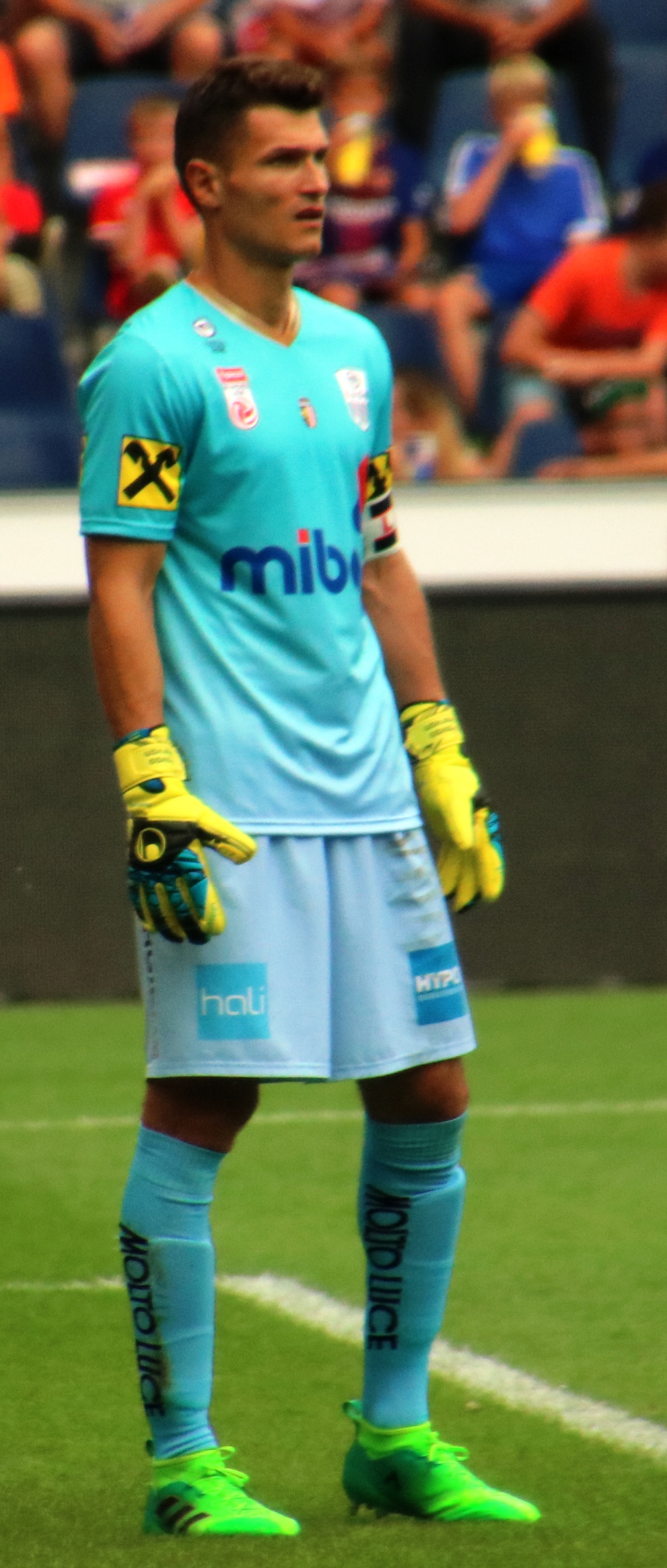 league match Austrian Bundesliga 2nd round